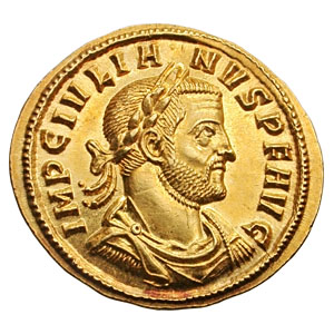 Julian of Pannonia AV Aureus. Siscia mint. IMP C IVLIANVS P F AVG, laureate, draped & cuirassed bust right. Calico 4413, Cohen 3.